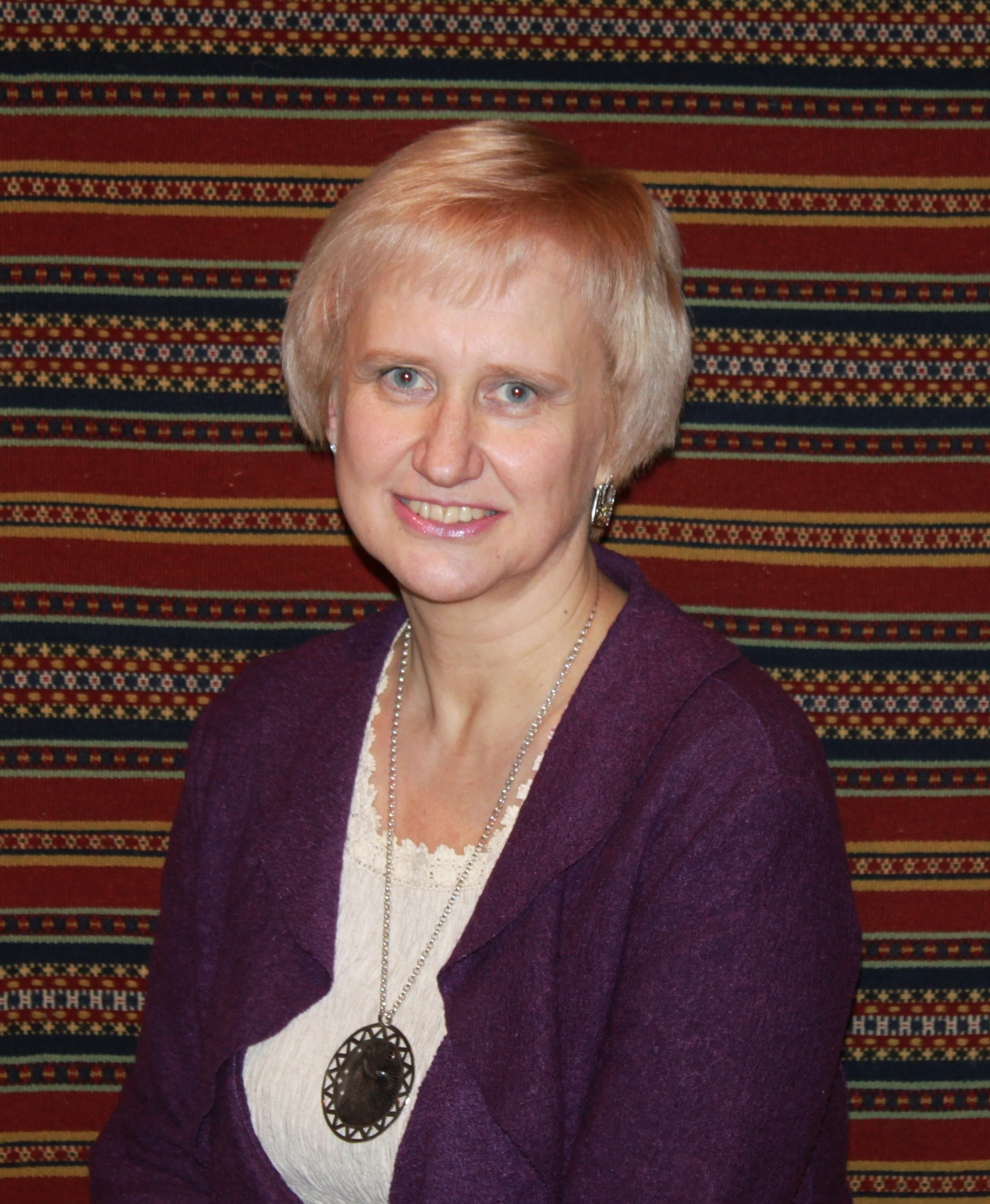 Merike Lang Eesti Vabaõhumuuseumi Kolu kõrtsis